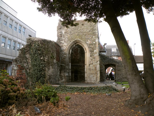 Ruins of St. Thomas a Becket chapel These ruins stand along Brentwood's High Street, close to The Baytree Centre. The chapel dates back to the 13th century and all the remains now is part of the west and north wall of the nave and the lower half of the 14th century tower. The fabric of the tower shows some re-used Roman brick. The building remained in use as a chapel until 1835 and it was then used as a boys school until 1869 when it was mostly demolished.